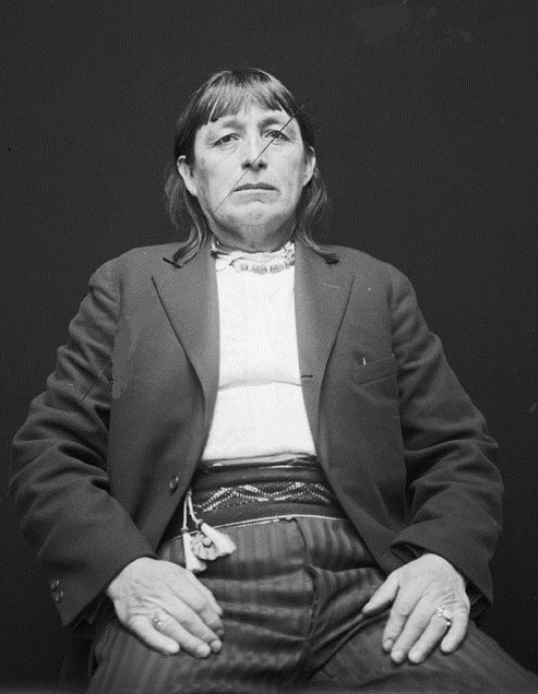 Pablo Abeyta Governor of Isleta